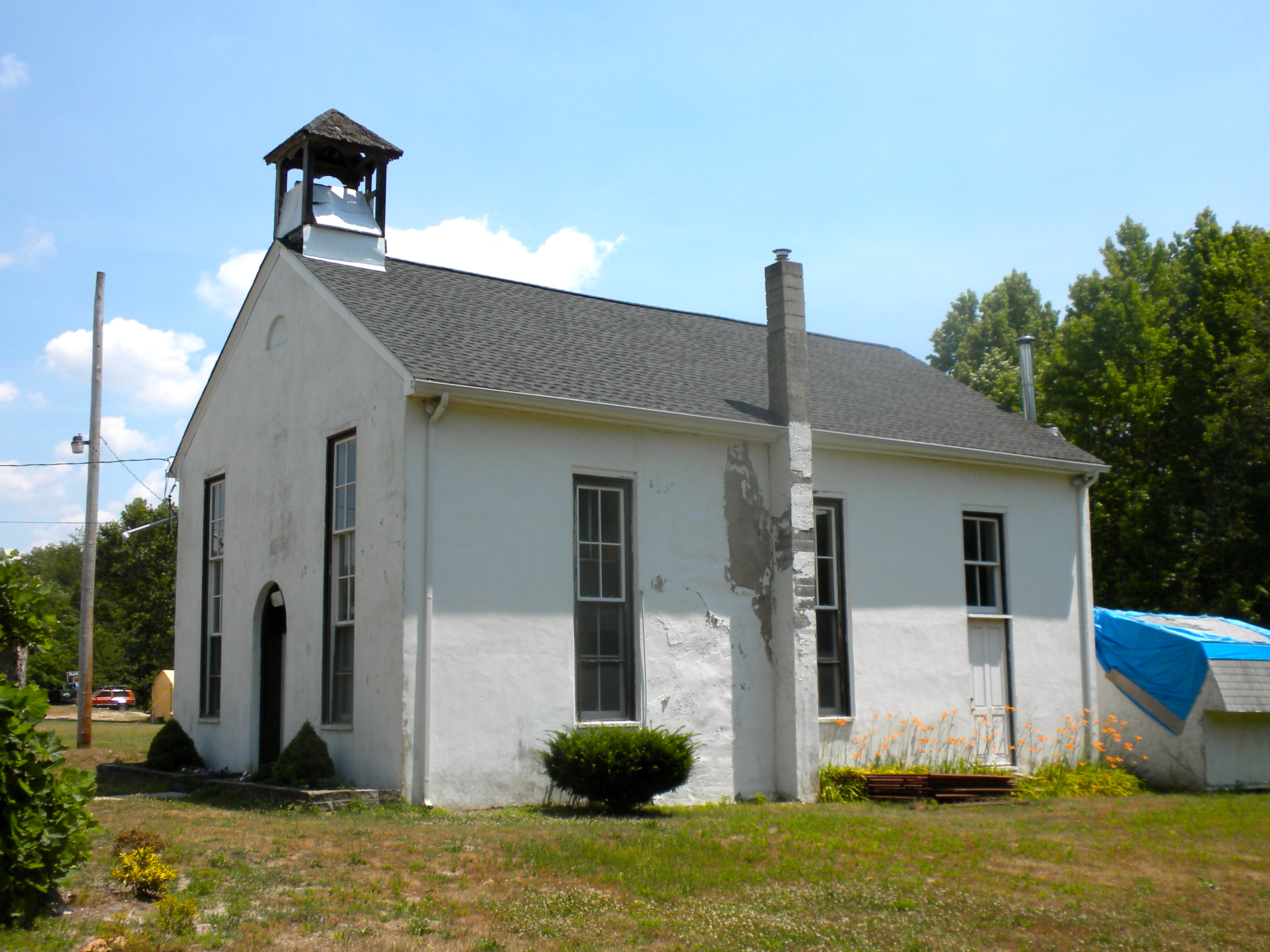 Bethel African Methodist Episcopal Church on the NRHP since November 12, 1999 on Sheppards Mill Rd. in Greenwich Township, Cumberland County, New Jersey. Associated with underground railroad and Harriet Tubman. Sign in front of the church gives location as "Othello" which is a perhaps entirely historical hamlet now, other locations might be given as "Springton" or Greenwich which might rank as Census Designated Places, but are rather small. Don't mix it up with the demolished church about a half mile down the road.